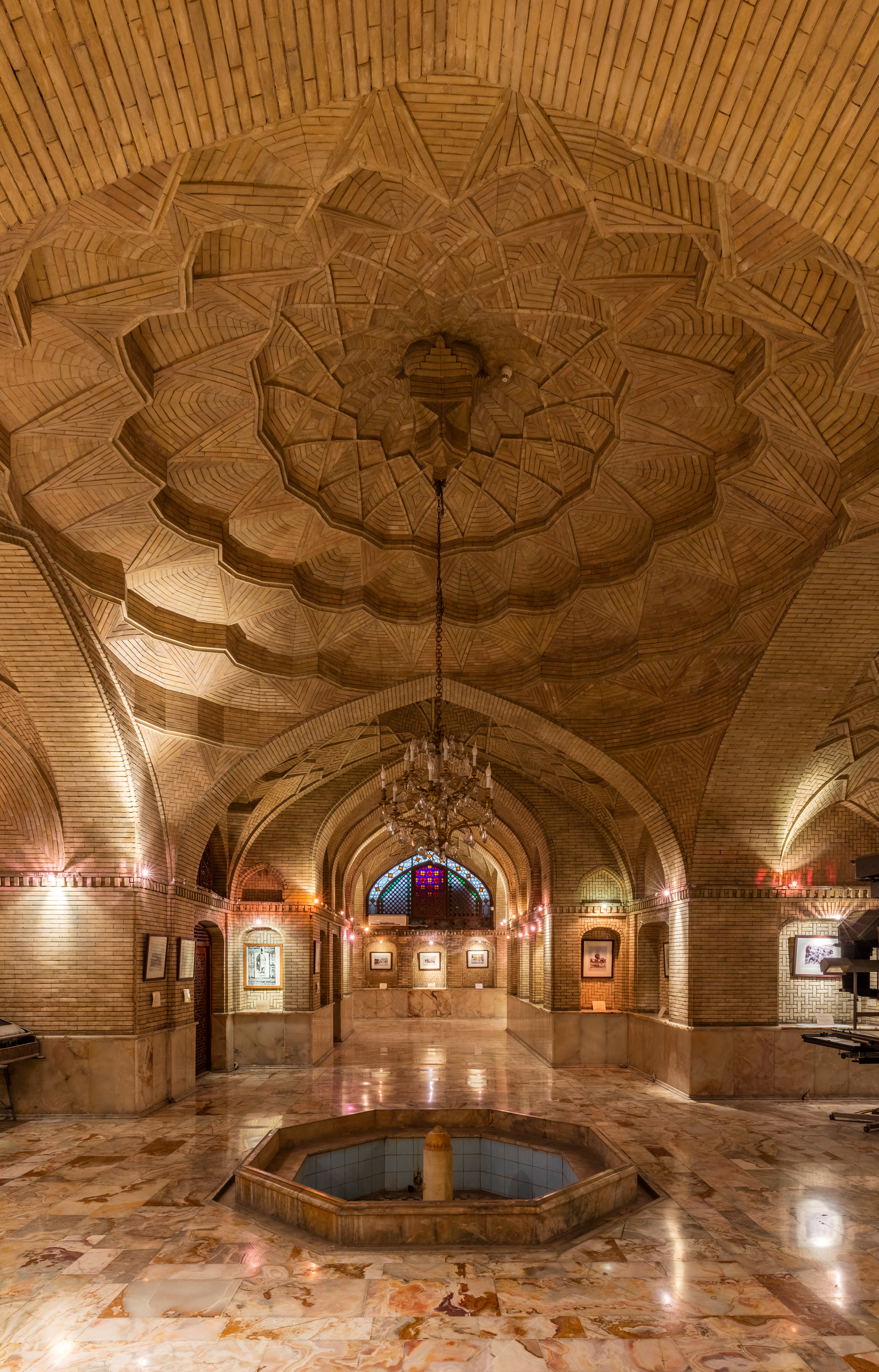 View of the chamber below the windcatcher of the Golestan Palace, used today as a photographic museum, Iran's capital city, Tehran. The UNESCO World Heritage Site belongs to a group of royal buildings that were once enclosed within the mud-thatched walls of Tehran's arg ("citadel") and is one of the oldest of the historic monuments in the city.